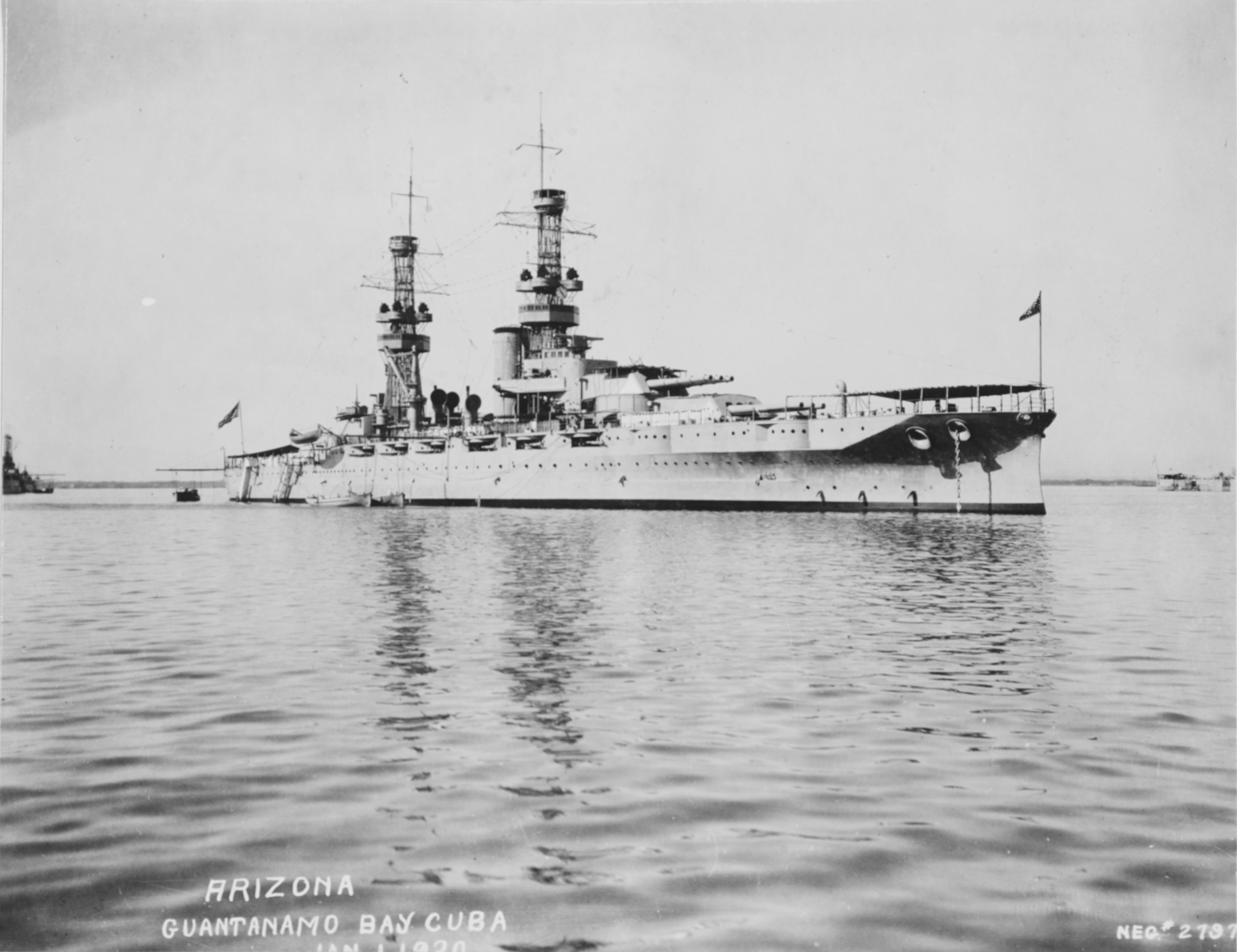 Anchored in Guantanamo Bay, Cuba, 1 January 1920. U.S. Naval History and Heritage Command Photograph.